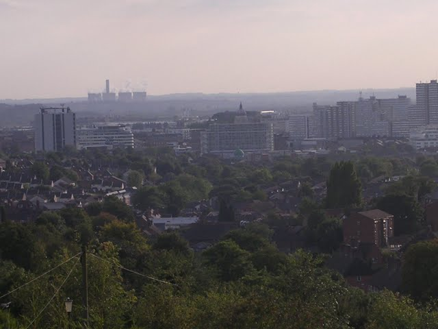 A close up of the Nottingham skyline.